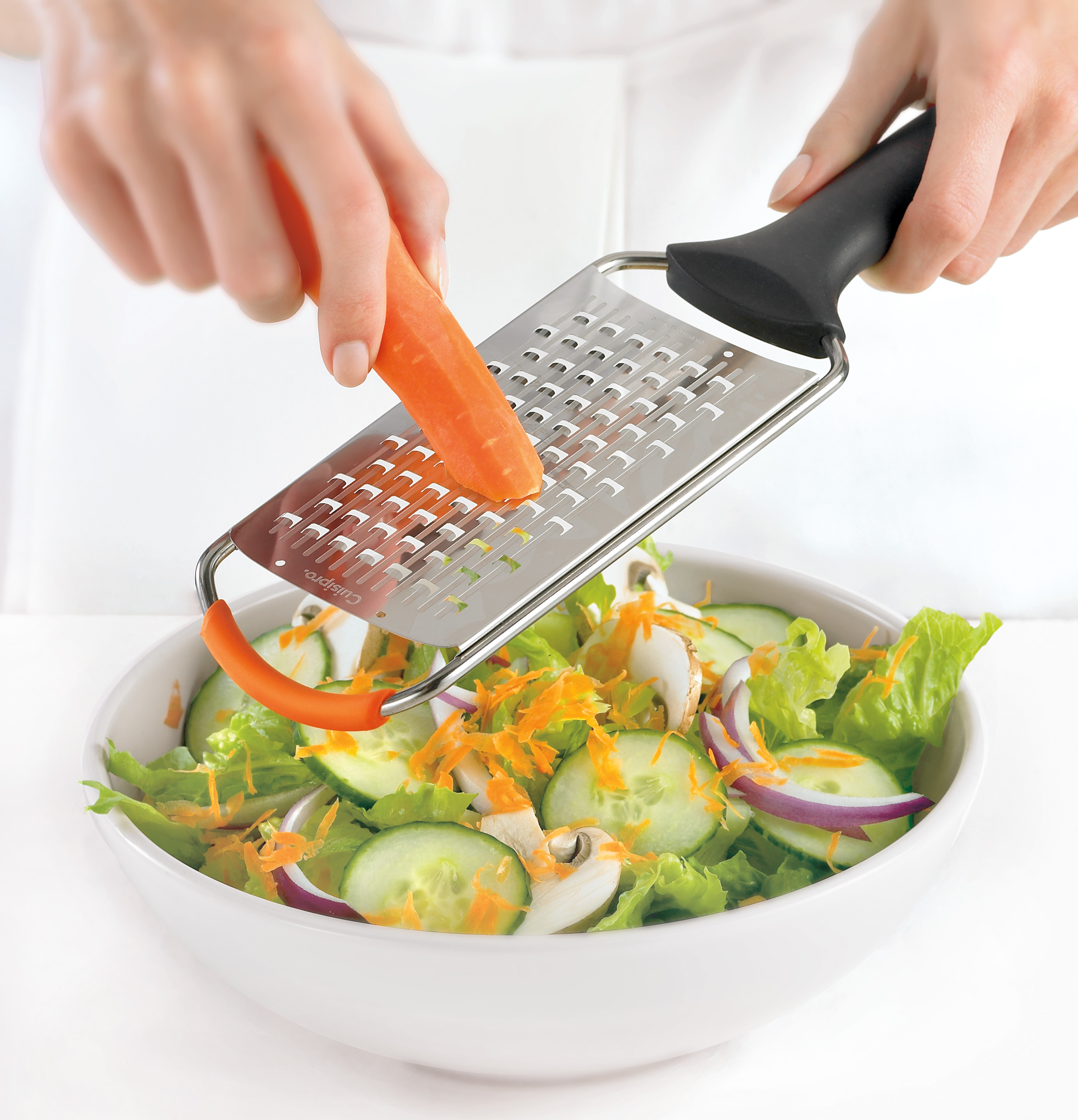 Grater Grating Vegetable